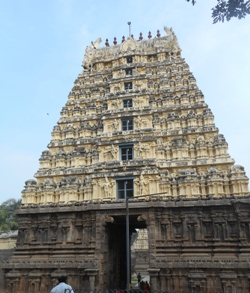 Vellore jalakandeswarartemple வேலூர் ஜலகண்டேஸ்வரர் கோயில்